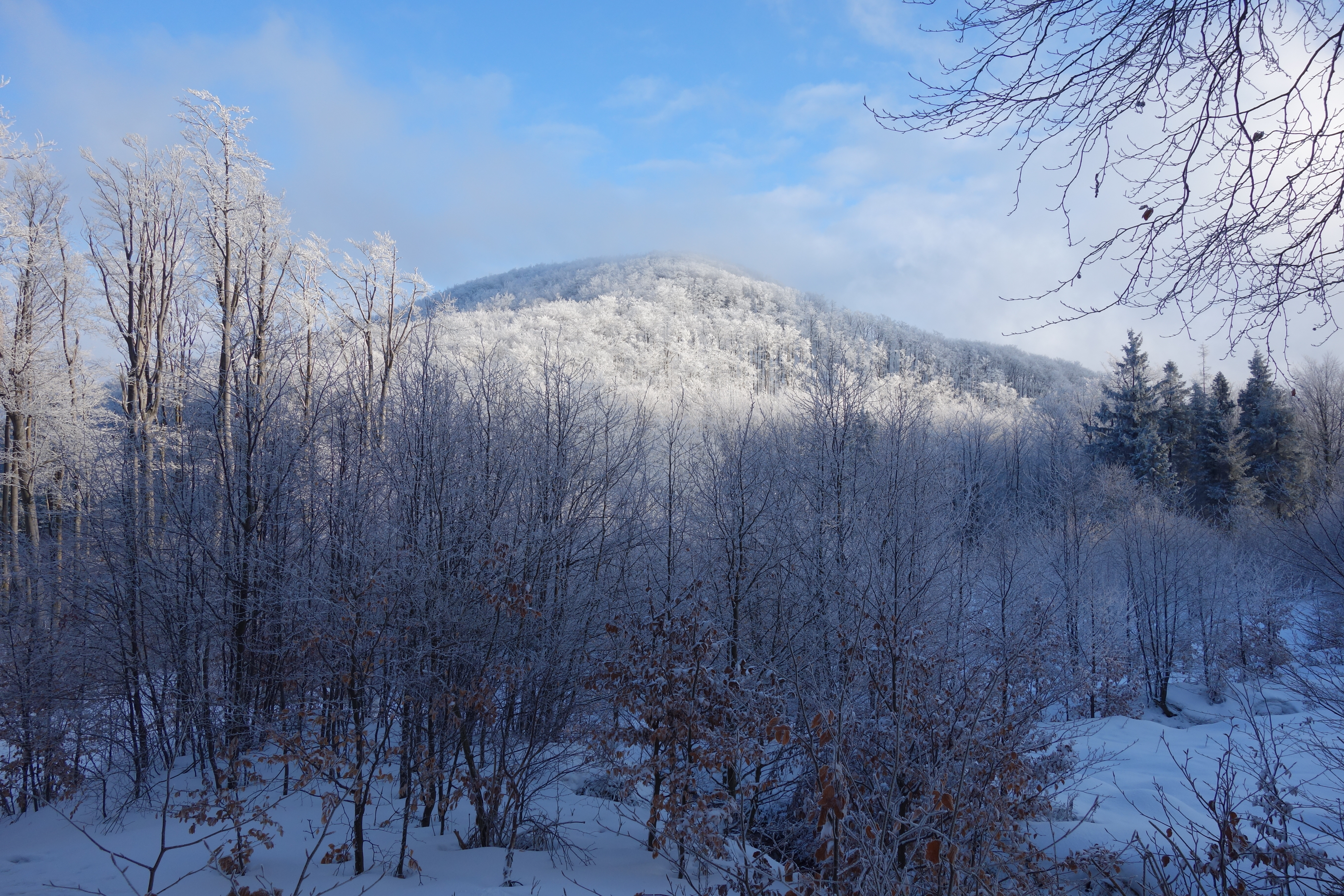 Praporec (Slanské vrchy) in winter, view from mountain saddle Obracaná studňa This is a photography of Natura 2000 protected area with ID SKUEV0932